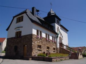 Old town hall of Hasbord-Dautweiler, Saarland, Germany